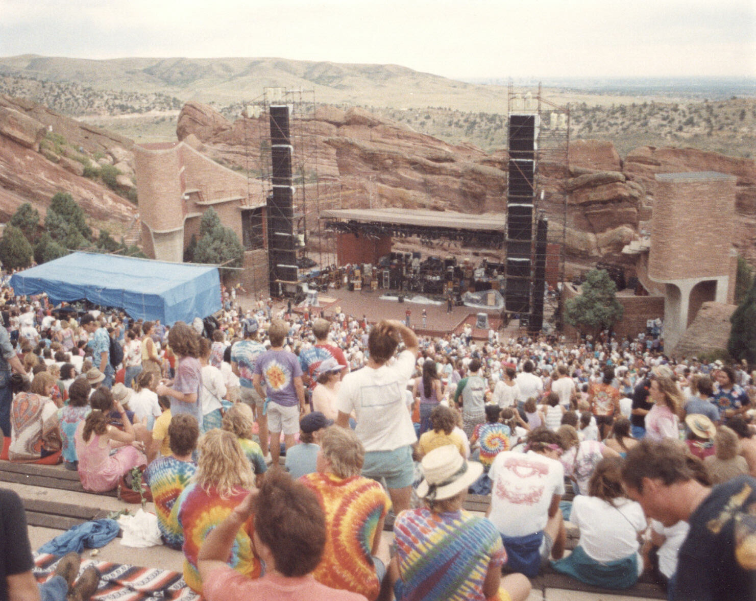 Grateful Dead at Red Rocks Amphitheatre in Morrison, Colorado, with deadheads waiting for concert/show to start